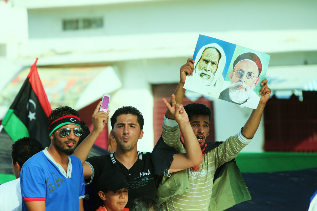 A Bayda citizen holding King Idris's photo and Omar Al-Mukhtar